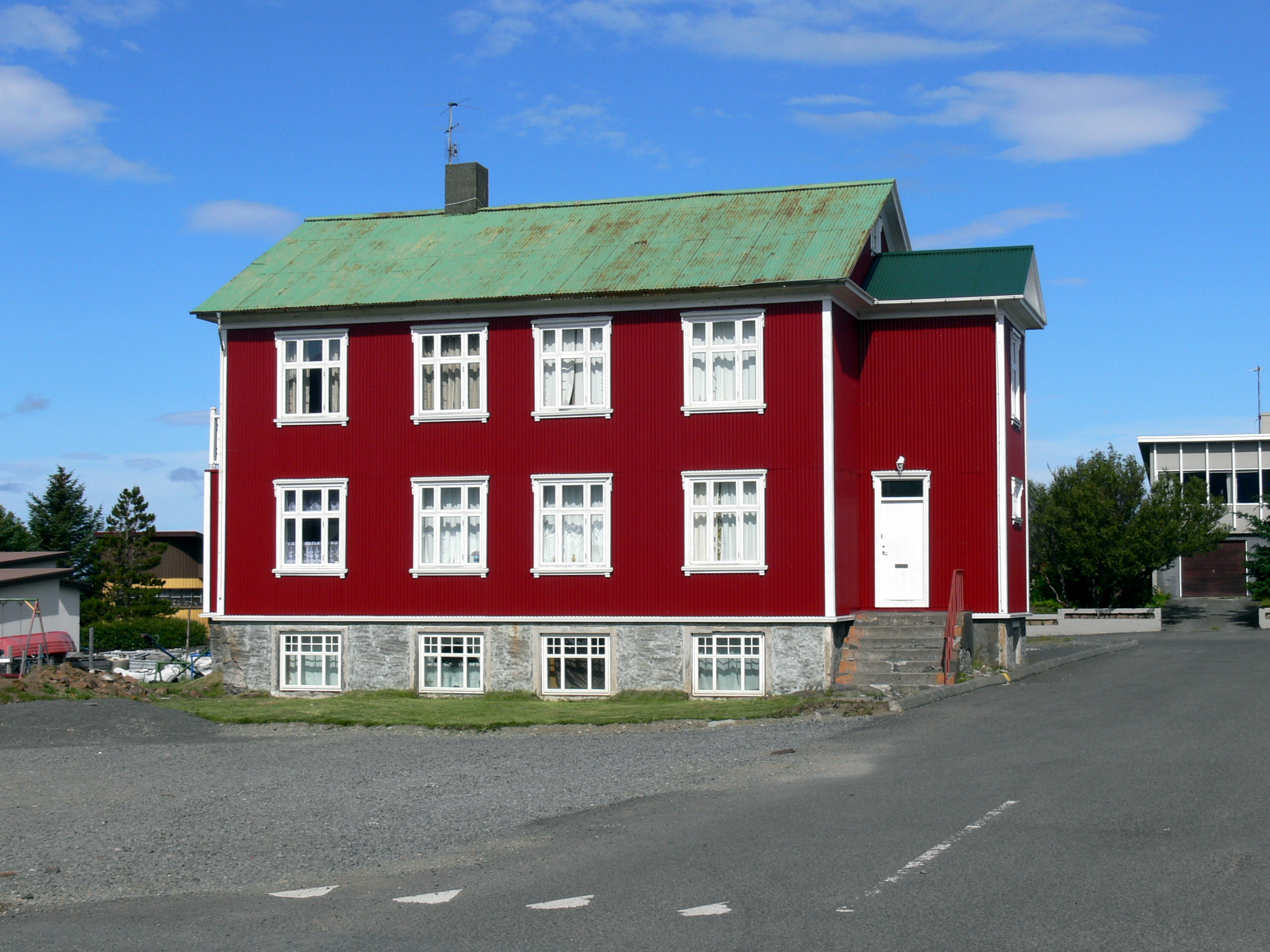 Borgarnes. Red house.